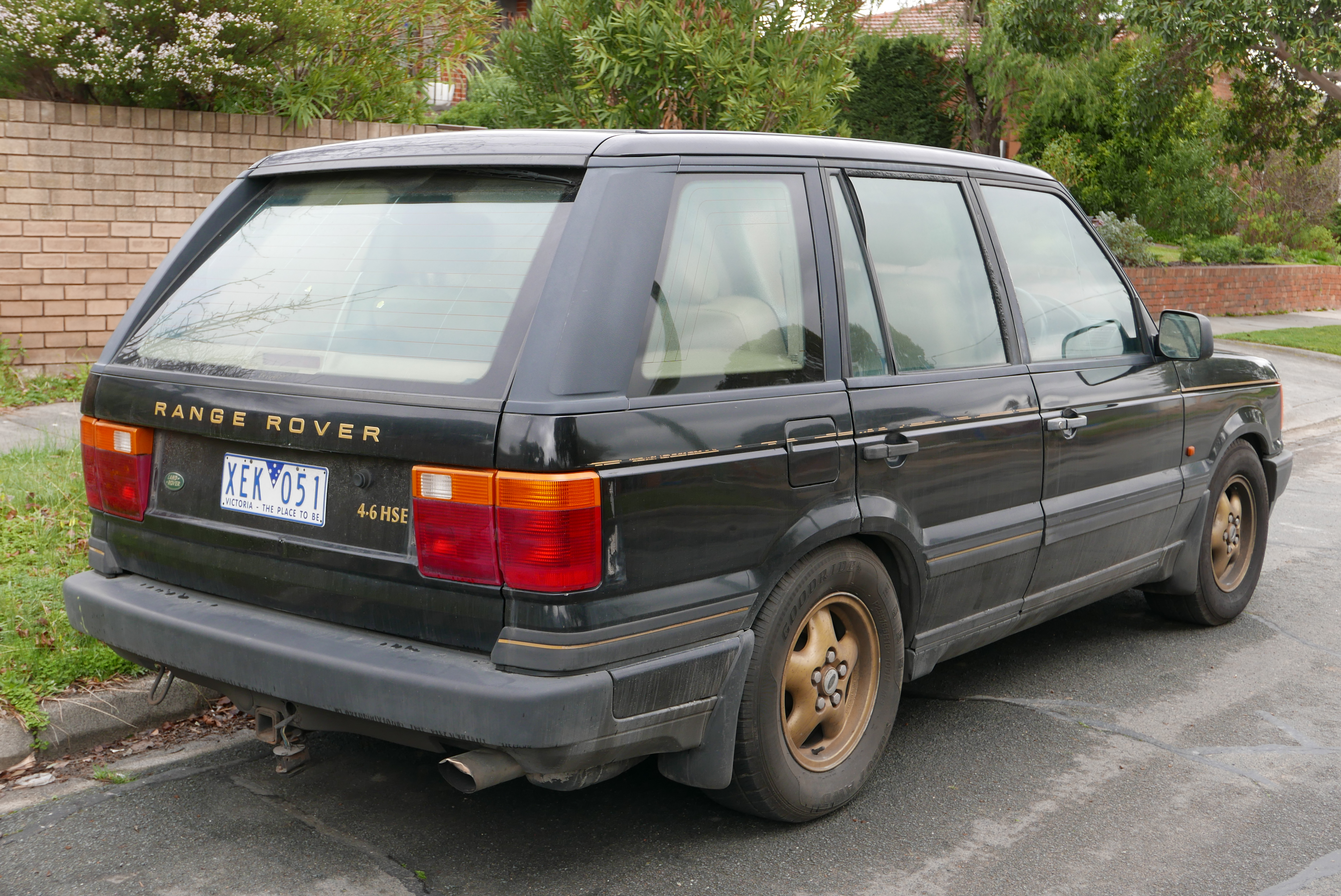 1996 Land Rover Range Rover (P38A) 4.6 HSE wagon. Photographed in Doncaster East, Victoria, Australia. Vehicle registration enquiry results Jurisdiction Victoria Registration XEK051 Chassis code SALLPAMD3TA326019 Engine code 48D09603A Compliance date 1996-03 Year of manufacture 1996